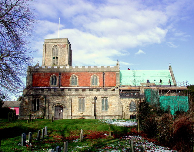 Parish Church of St Peter, Wawne, East Riding of Yorkshire, England.A church was recorded at Wawne in 1115 and was noted as dedicated to St Peter and St Paul in 1505. It was largely rebuilt in the 14th and 15th centuries and restored by J. M. Teale of Doncaster in 1874–5. In the photograph the chancel is being re-roofed. More information on Wawne and its church can be found at British History Online.